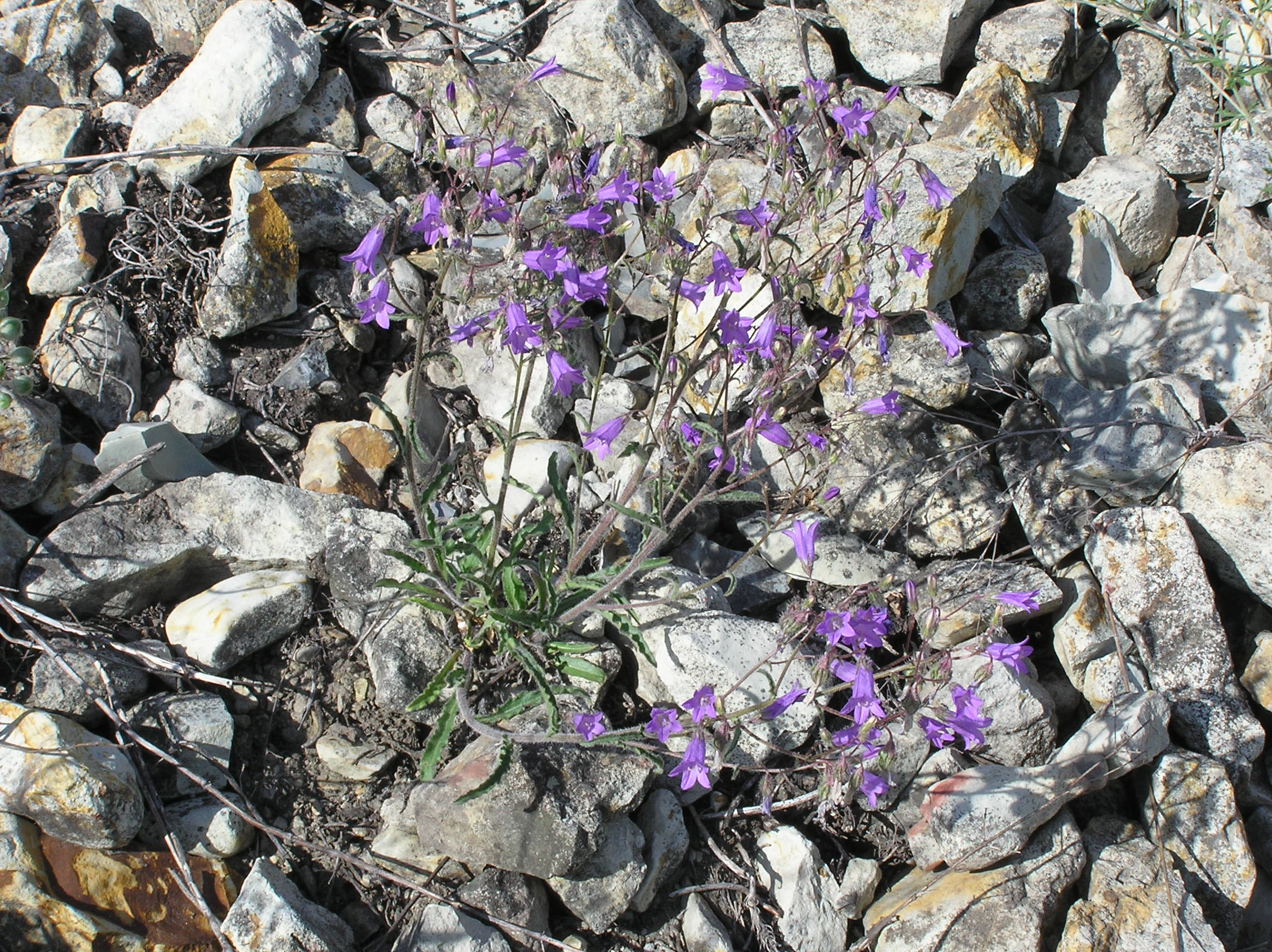 Campanula sibirica L. Habitat: south-western rocky slope. Vicinity of Saratov city, Russia.